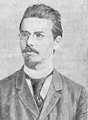 The Austrian Chemist Fridrich Reinitzer